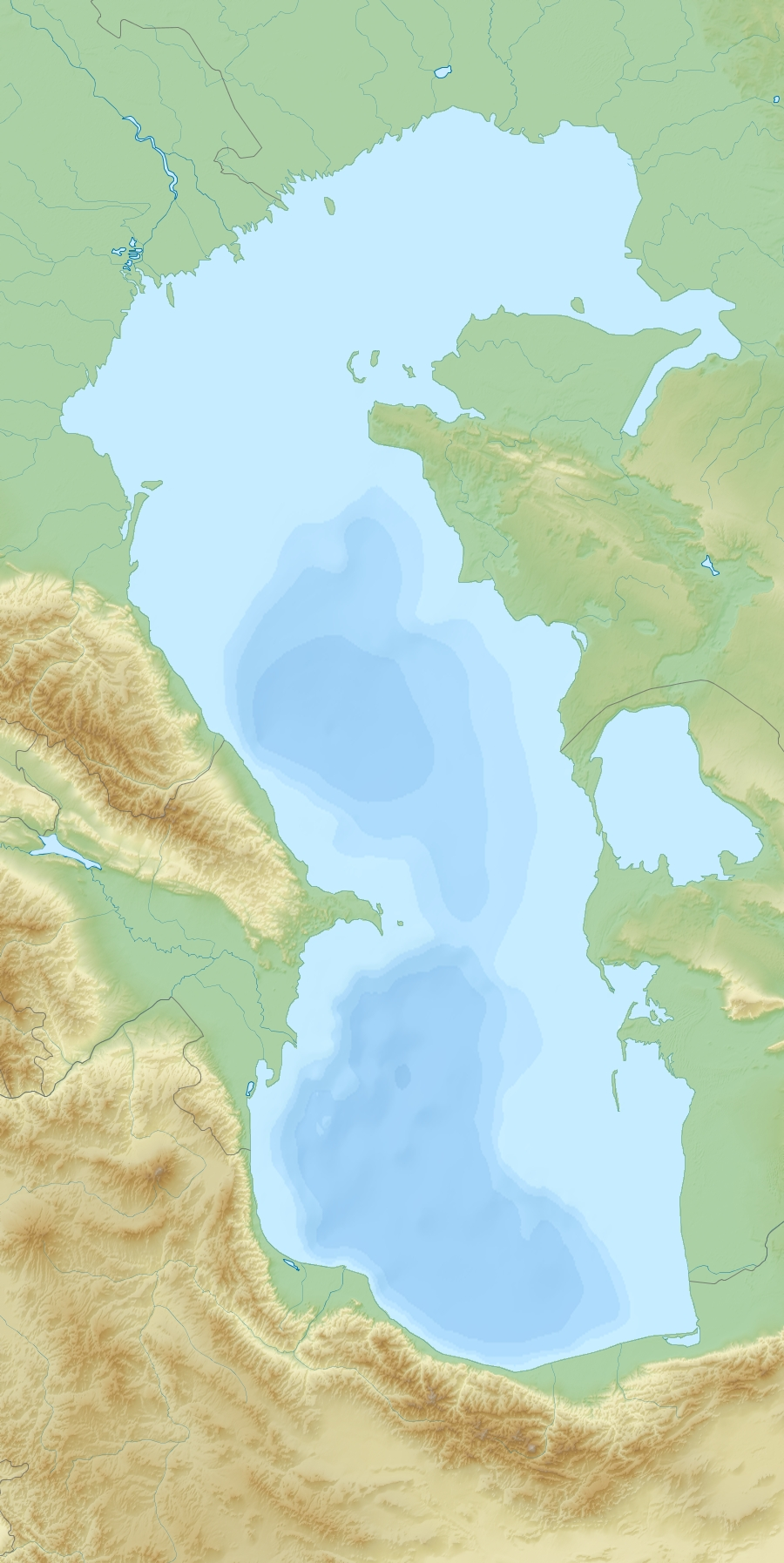 Relief Location map of Caspian_Sea. Projection: Equirectangular projection, strechted by 138.0%. Geographic limits of the map: N: 48.0° N S: 35.0° N W: 46.0° E E: 55.0° E Projection center: NS: 41.5° N WE: 50.5° E GMT projection: -JX15.24cd/30.3784cd GMT region: -R46.0/35.0/55.0/48.0r GMT region for grdcut: -R46.0/35.0/55.0/48.0r Relief: SRTM30plus. Made with Natural Earth. Free vector and raster map data @ .